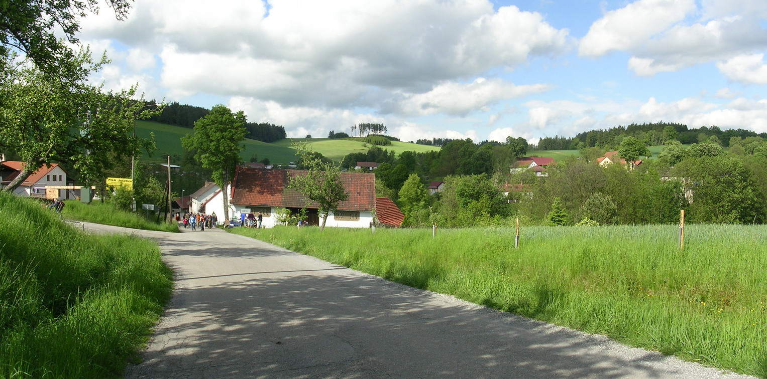 Ješetice, Benešov District, Central Bohemian Region, the Czech Republic.